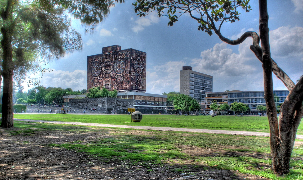 University City campus of the National Autonomous University of Mexico, a UNESCO's World Heritage Site since 2007.